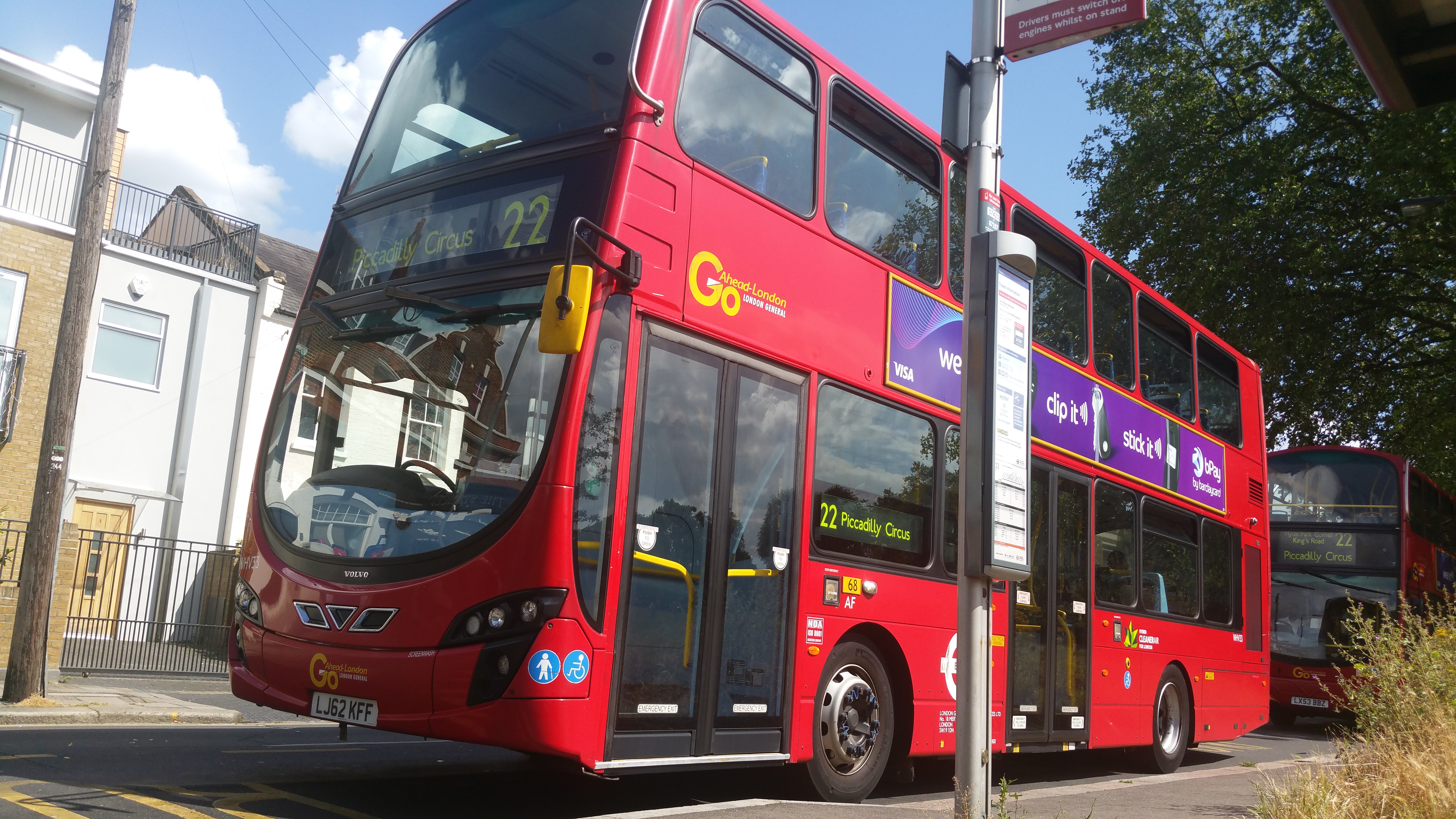 Wright Eclipse Gemini 2 bodied Volvo B5LH on Putney Common in July 2015